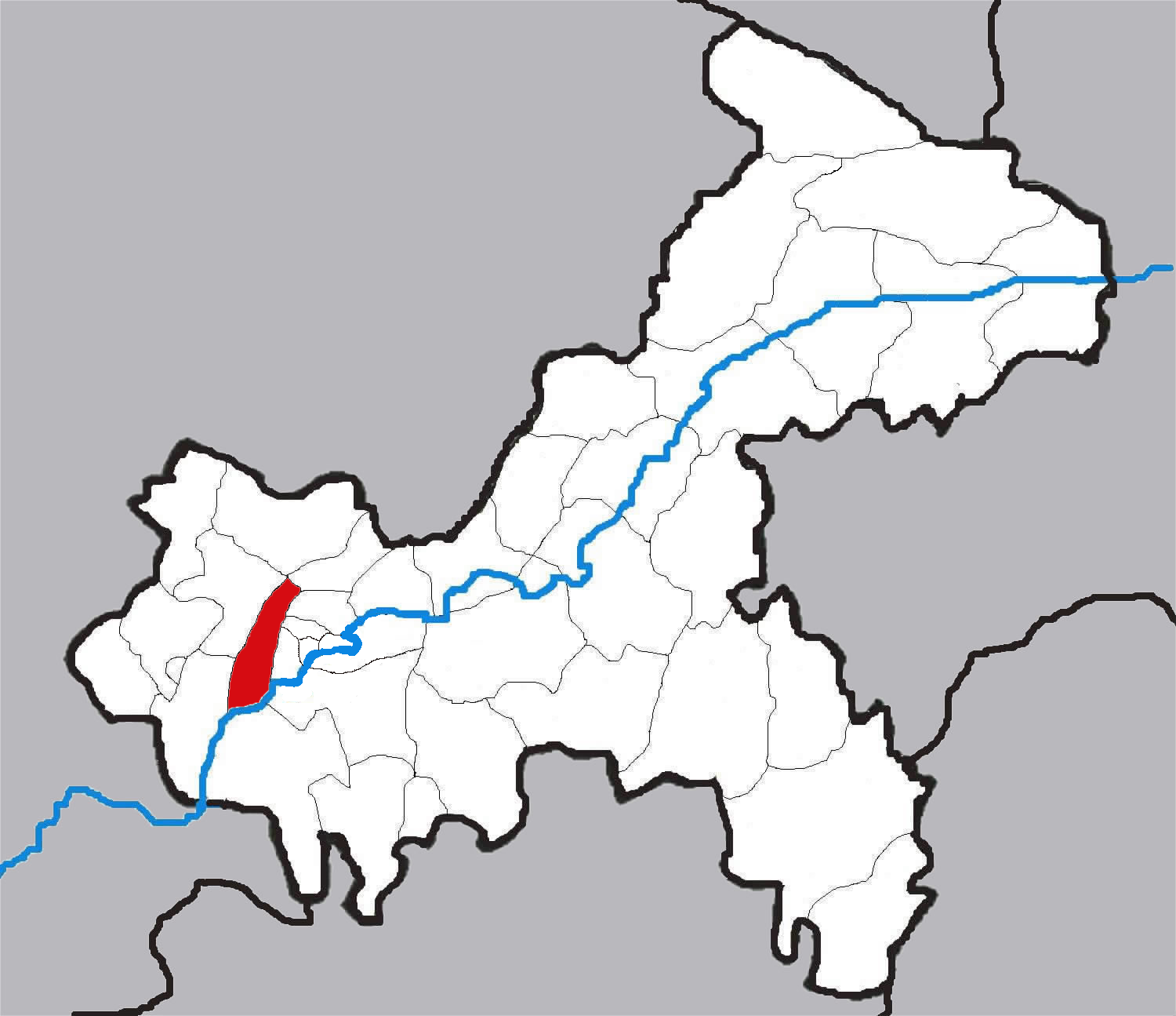 Administration maps of Chongqing, China